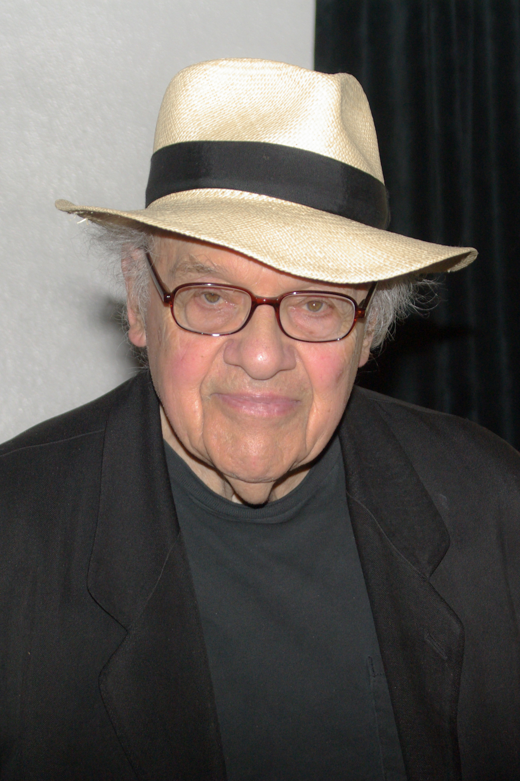 American poet Gerald Stern at the Miami Book Fair International 2011